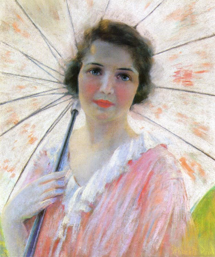 Lady with a Parasol